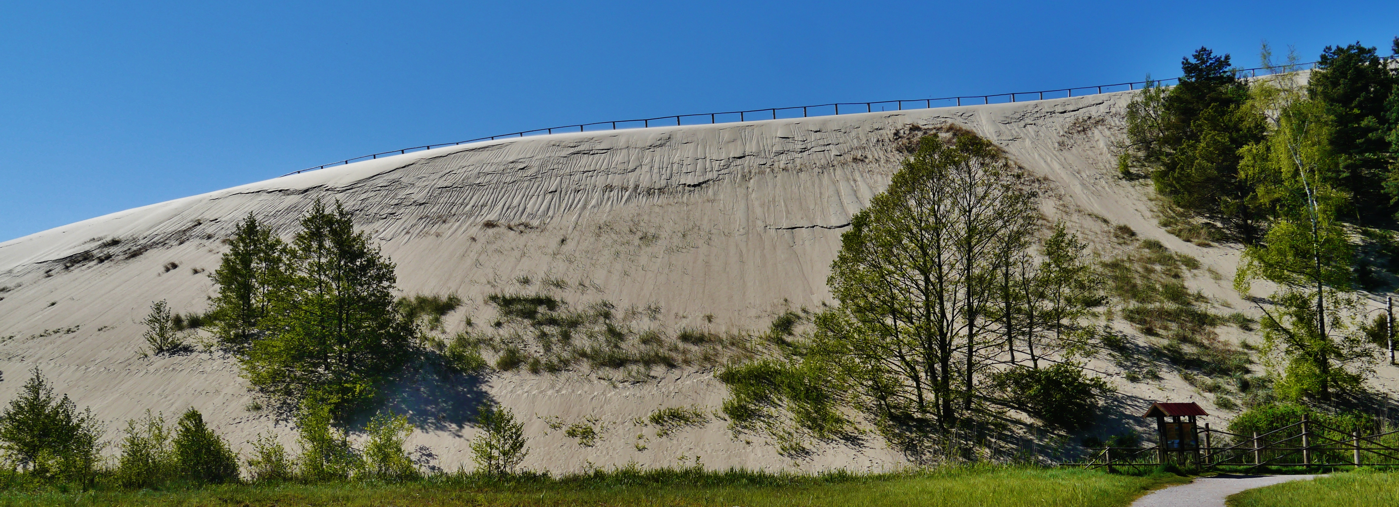 Parnidden Dune near Nida, Curonian Spit, Lithuania